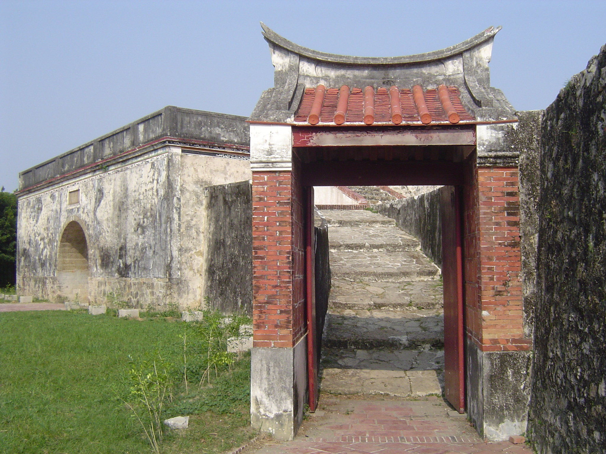 Side entrance of east city gate of Fengshan near Kaohsiung, Taiwan. Other city gates of Fengshan: south gate, east gate, former west gate, north gate.